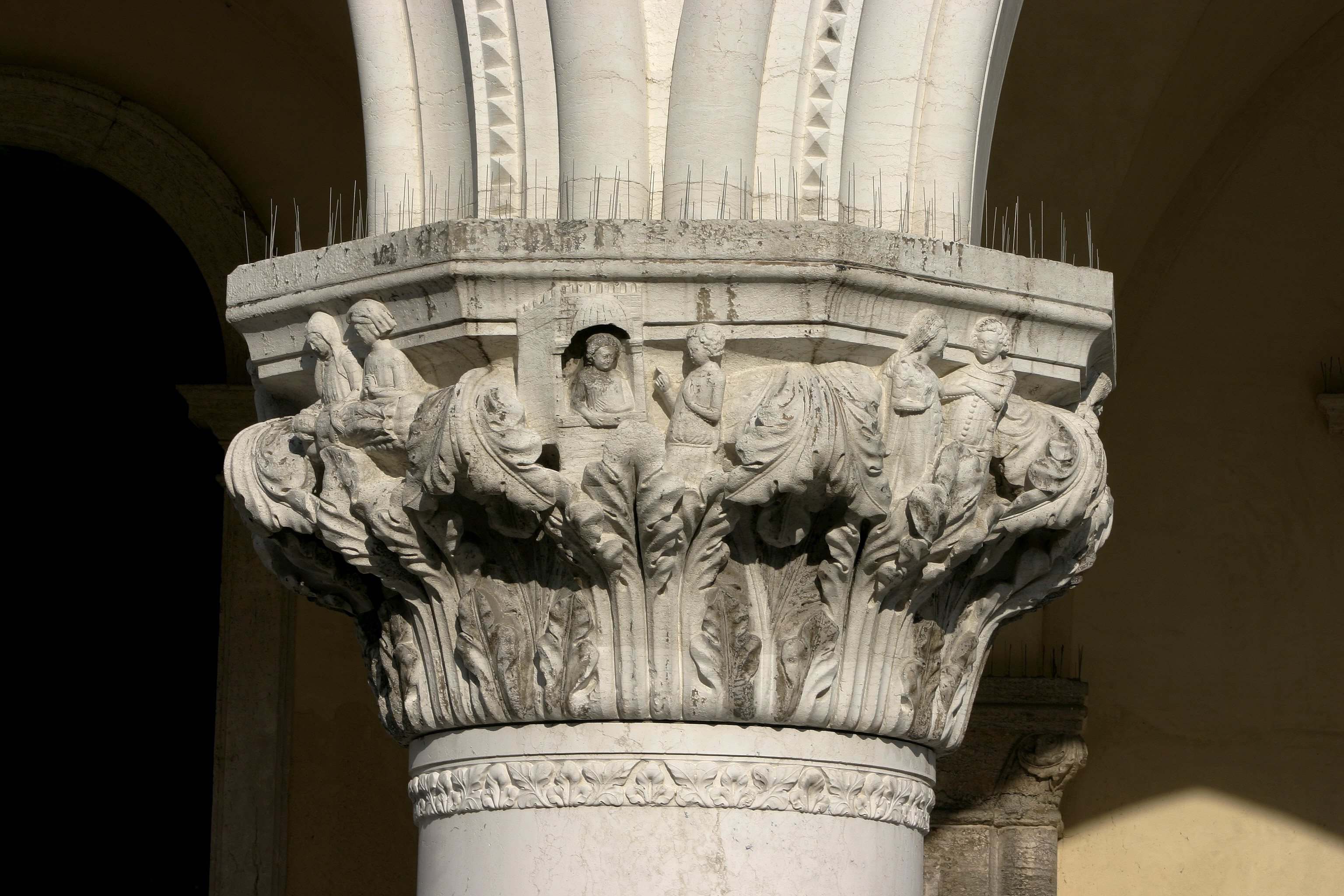 Venice - Doge’s Palace – Capital # 3